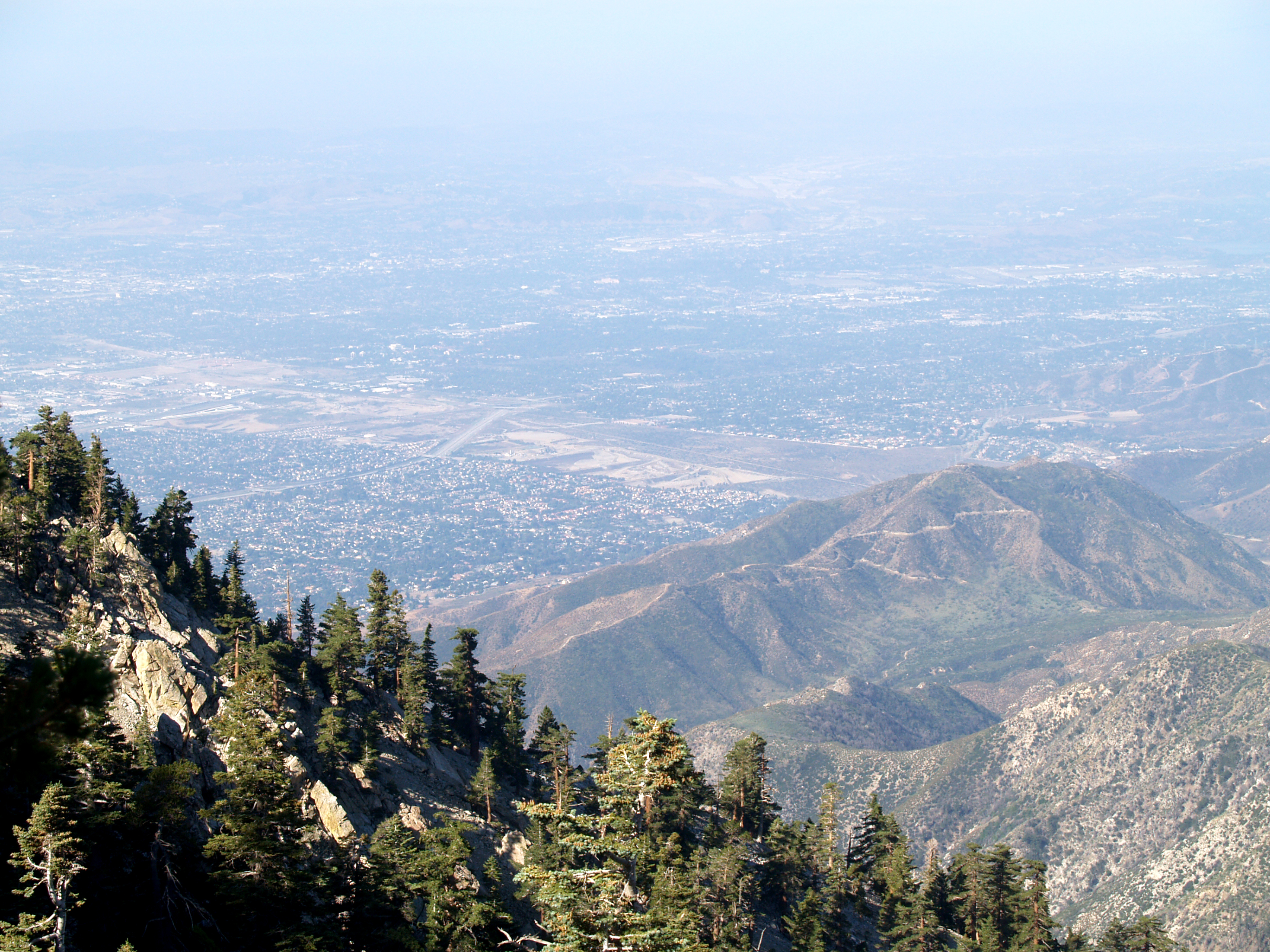 A view of the Cucamonga Valley AVA in California from the Cucamonga Peak trail.